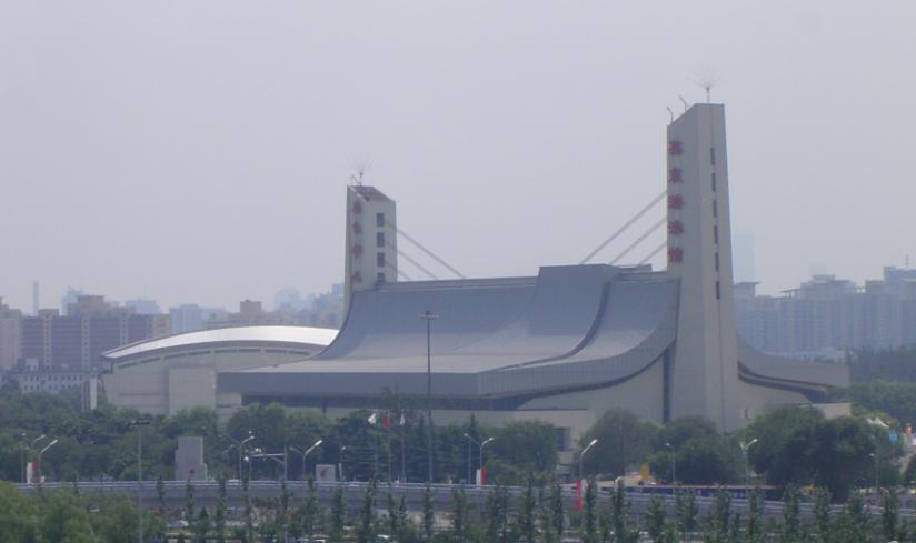 The Yingdong Natatorium of the Olympic Sports Center Gymnasium.